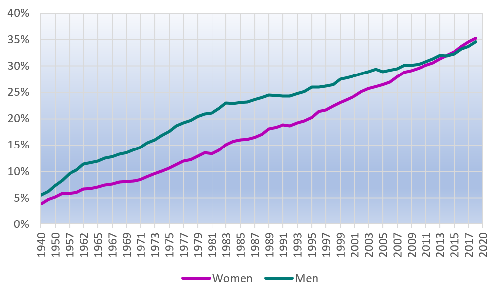 Percentage of the U.S. population who have completed four years of college or more from 1940 to 2018, by gender; data